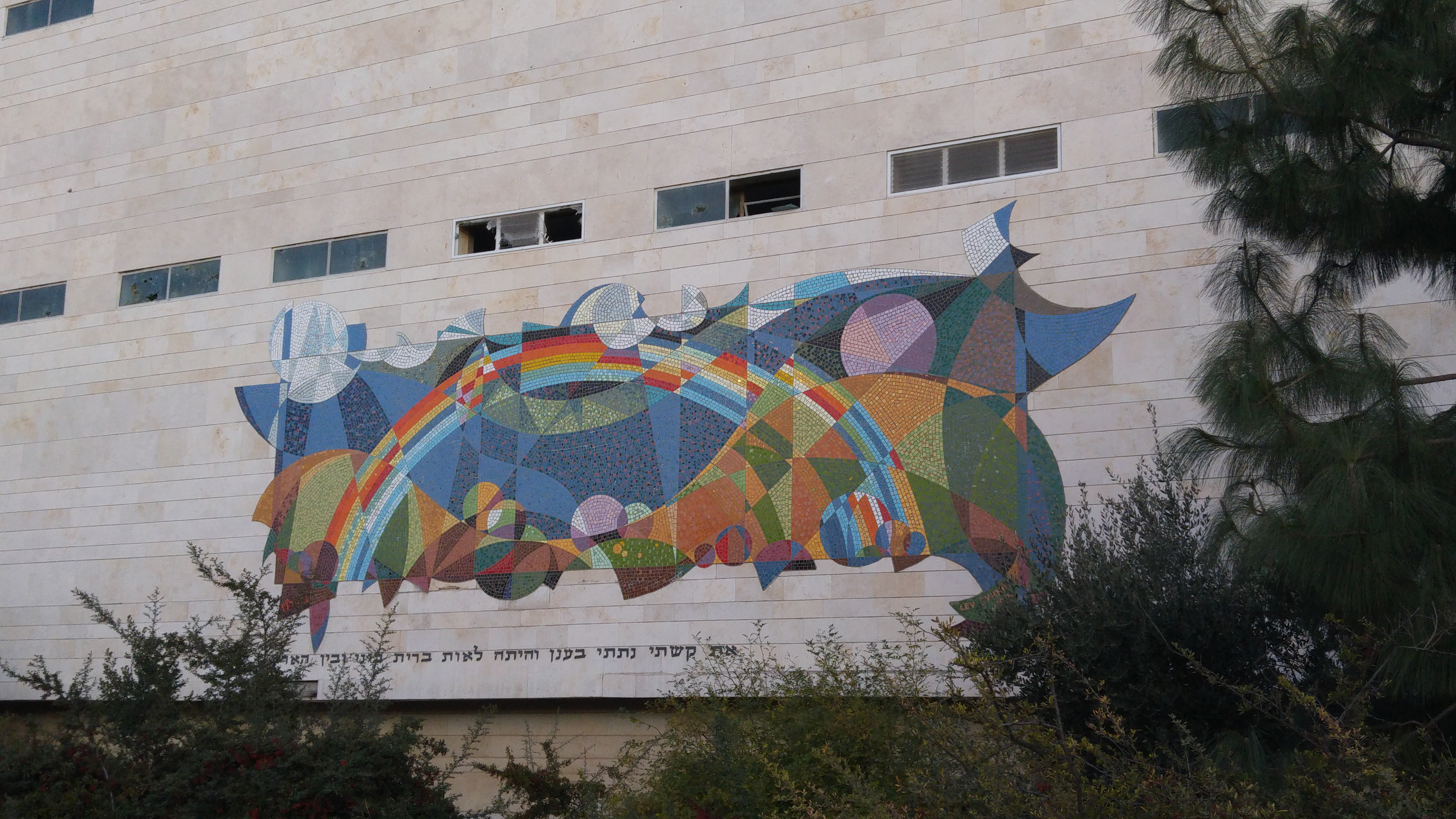 Jerusalem, Hebron Road, rainbow mosaic - I have set my rainbow in the clouds, and it will be the sign of the covenant between me and the earth. (Genesis 9:13) - את קשתי נתתי בענן והיתה לאות ברית ביני ובין הארץ (בראשית ט 13)